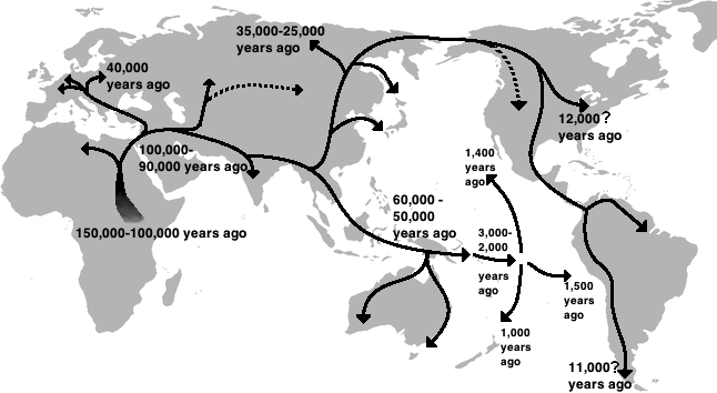 This is a recreation of a map that can be found at the Kyushu Museum website that shows the human migration path and dates Out of Africa as proposed by Saitou Naruya (Japanese:斎藤成也) professor at the (Japanese) National Institute for Genetics. This map was made using a map found at Wikipedia Commons as a base. Note that the Pacific has been significantly distorted by patching together two halves of a pseudocylindrical projection world map.